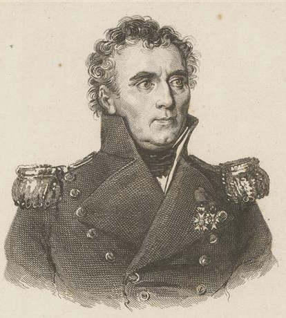 Busts portrait of Louis Isidore Duperrey